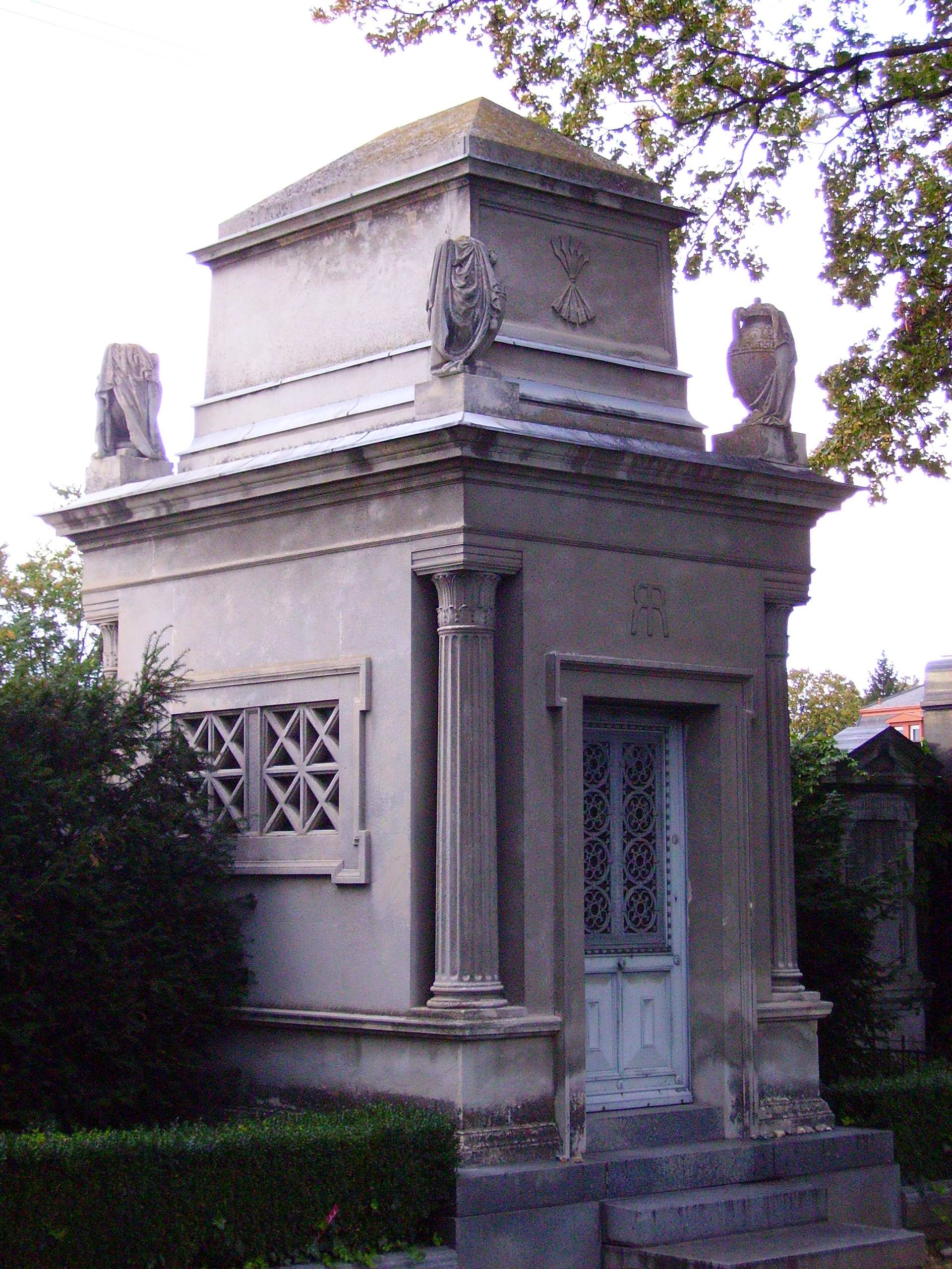 Tomb of Austrian Rothschilds, Vienna, Zentralfriedhof, 1. gate (architect: Wilhelm Stiassny)